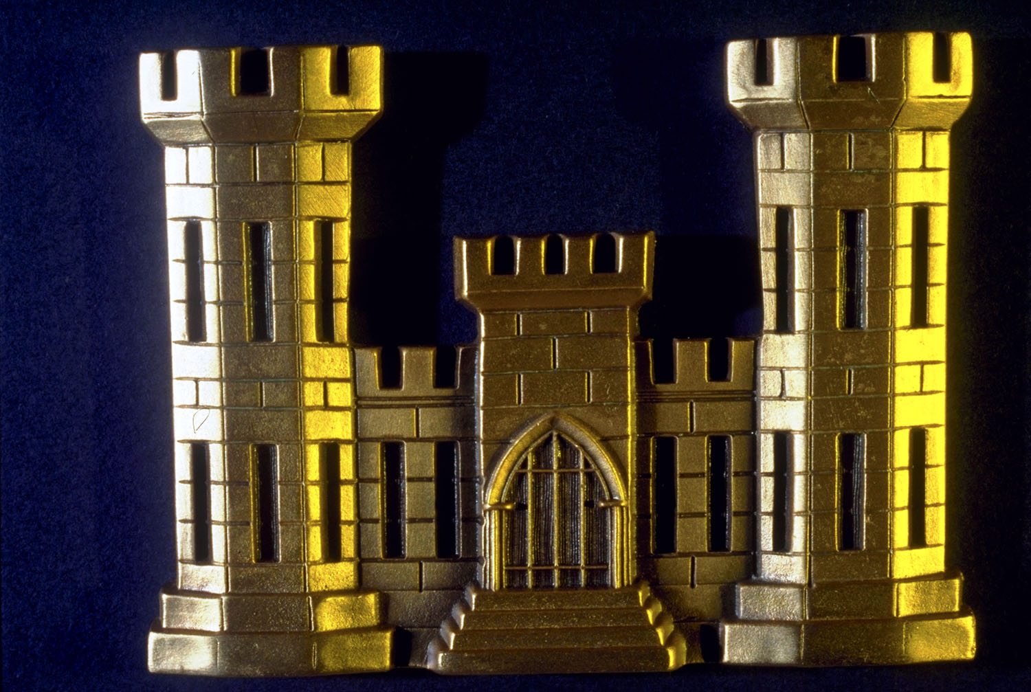 The gold castle insignia, worn by officers of the U.S. Army Corps of Engineers.